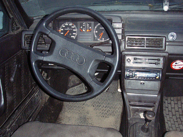 Audi 80 B2,Saloon